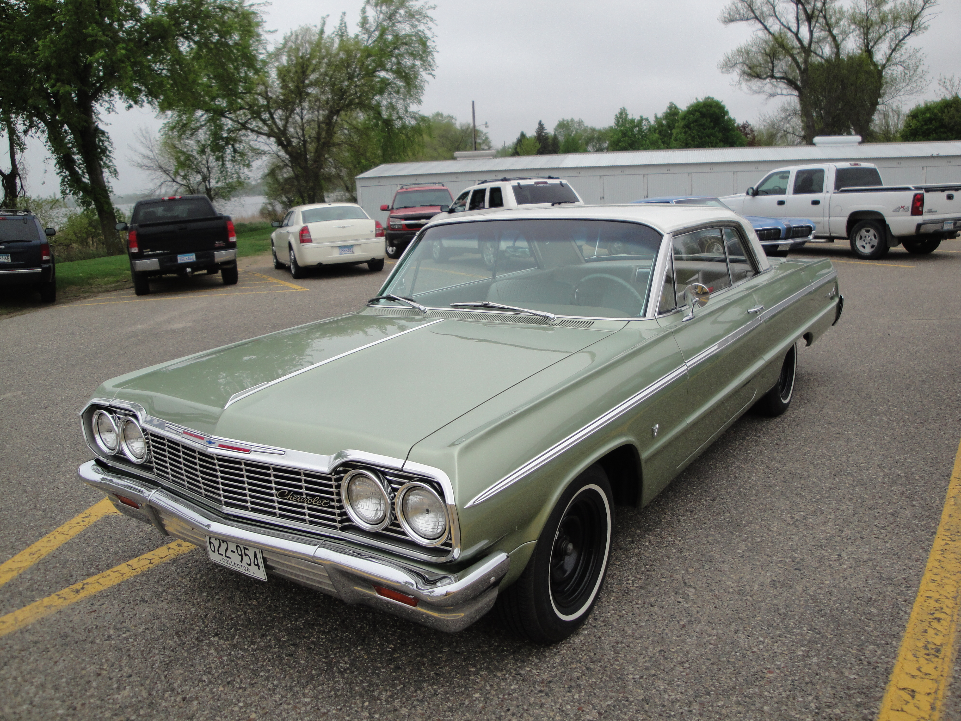 Car Buffs' Breakfast May 2012 Peter's on Lake Ripley